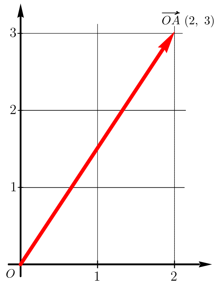 2D coordinate system